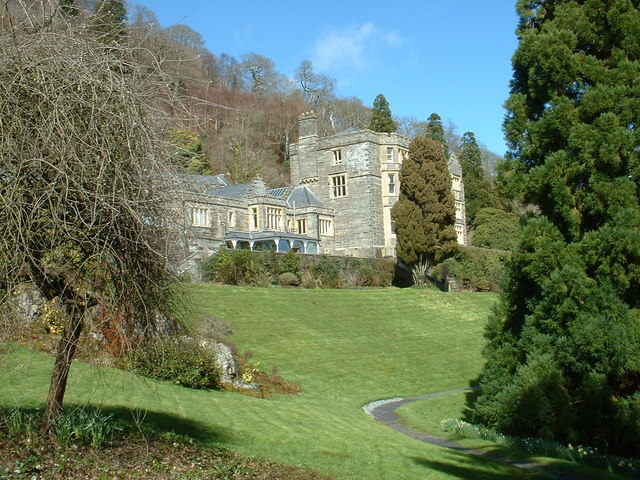 Plas Tan-y-bwlch For many years, this was the home of the Oakeley family, who owned much of the Ffestiniog slate industry. It is now the Snowdonia National Park Field Study Centre, but the grounds [and sometimes the house] are open to the public. There are extensive, well cared for, gardens.